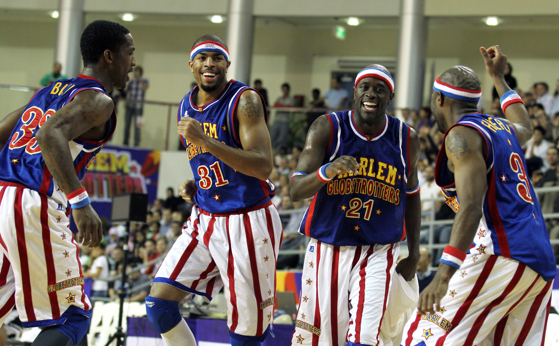 members of the Harlem Globetrotters during a game at the Qatar Women's Sport Committee Indoor Hall. Pic by Vinod Divakaran